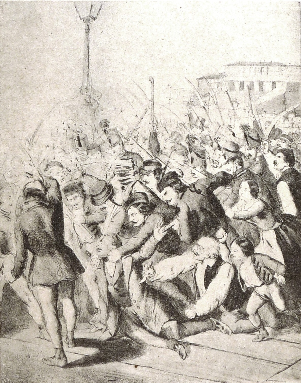 Assassination of lieutenant-general Count Franz Philipp von Lamberg. (unknown author's work)